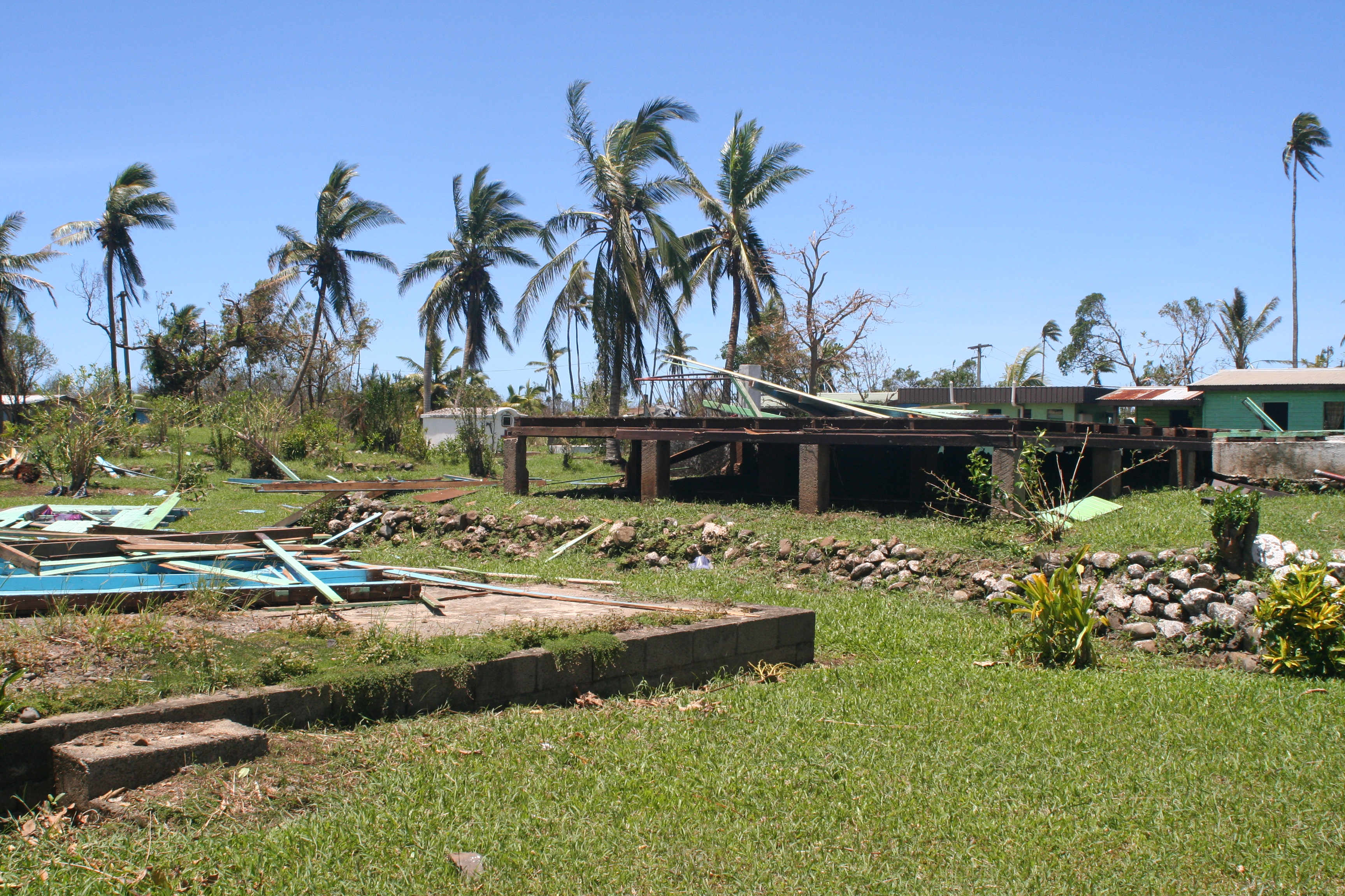 Many houses were flattened when Cyclone Evan tore across Fiji causing widespread damage.